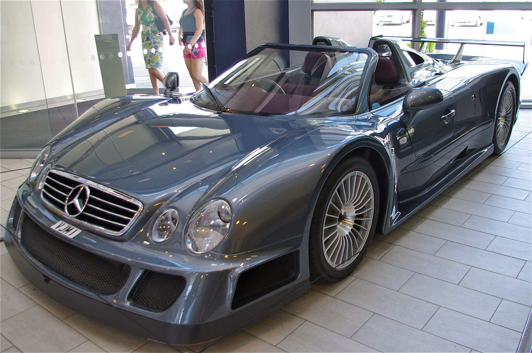 A Mercedes-Benz CLK GTR (1 of 6 in the world) at Mercedes-Benz World, Weybridge, Surrey, UK.